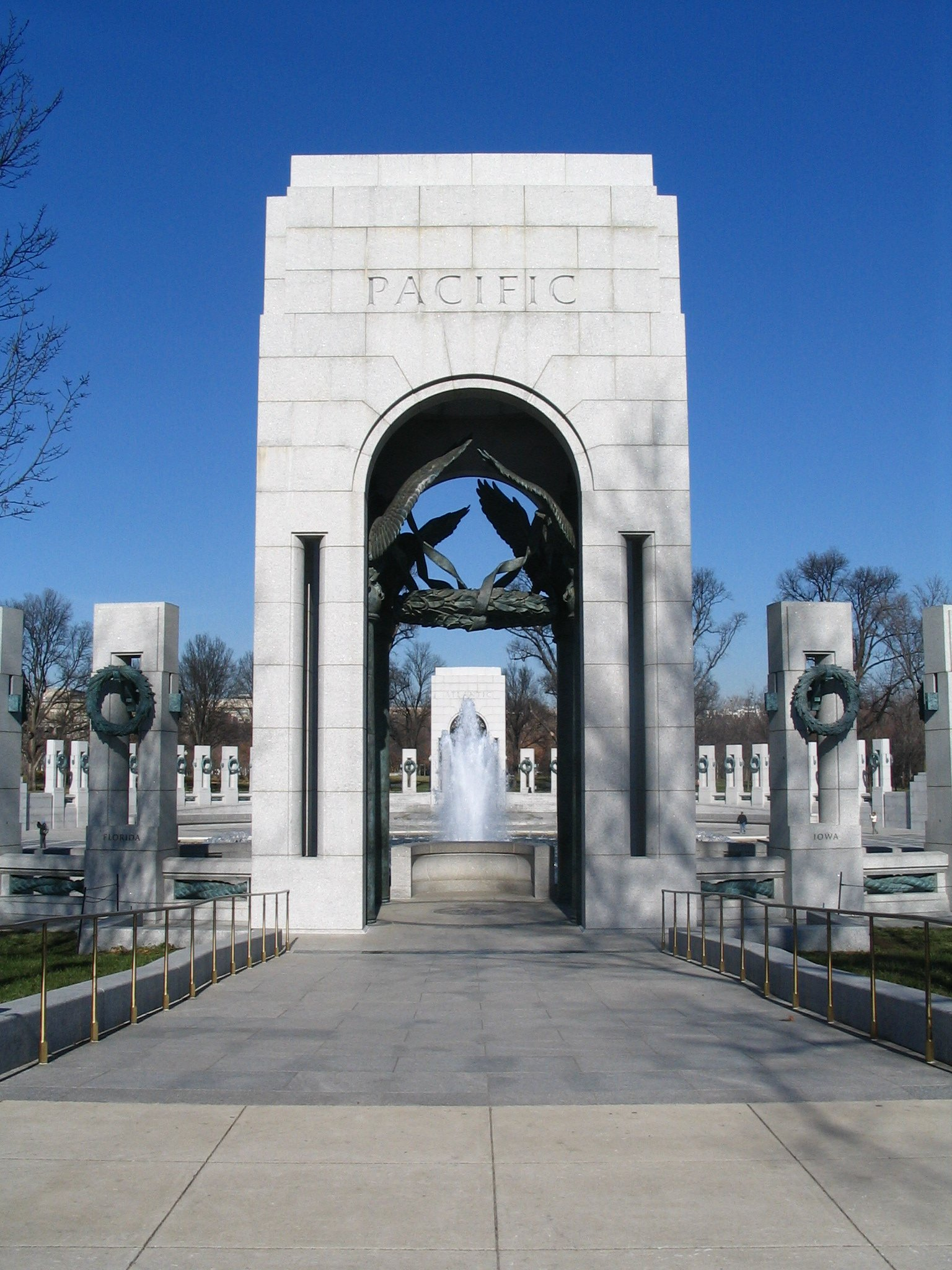 Picture I took of the Pacific Arch of the National World War II Memorial when I visited in January 2007.